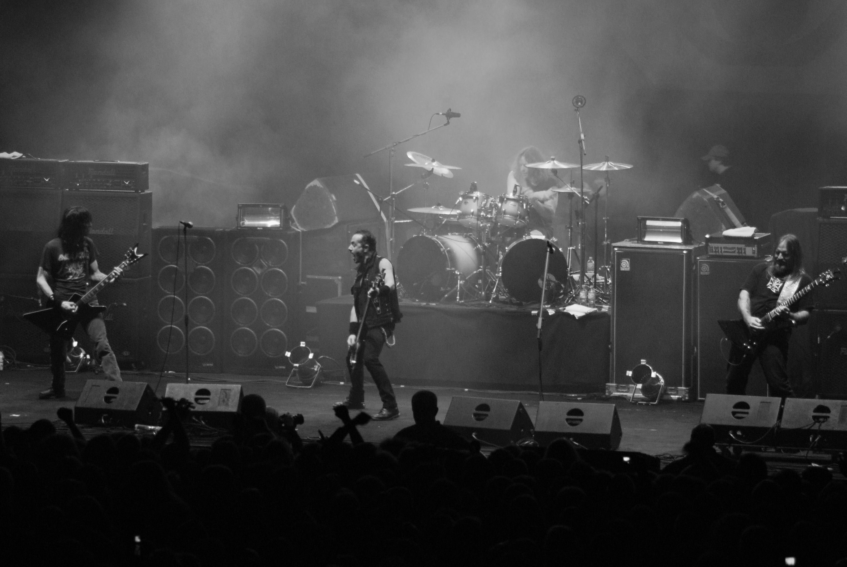 Overkill during Metalmania 2008 festival